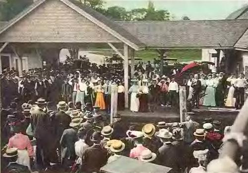 Landing at Center Harbor, NH in 1906; from an old postcard.